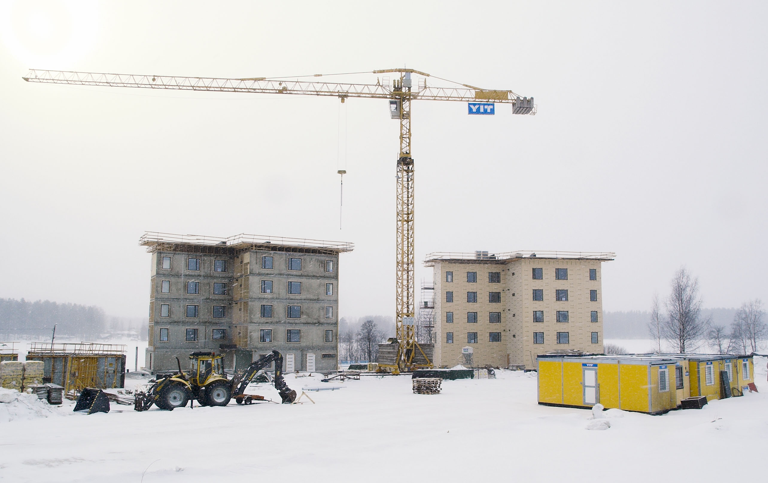 Two Flats being built in Vuorela, Siilinjärvi, Finland. Located near bath house Kunnonpaikka.